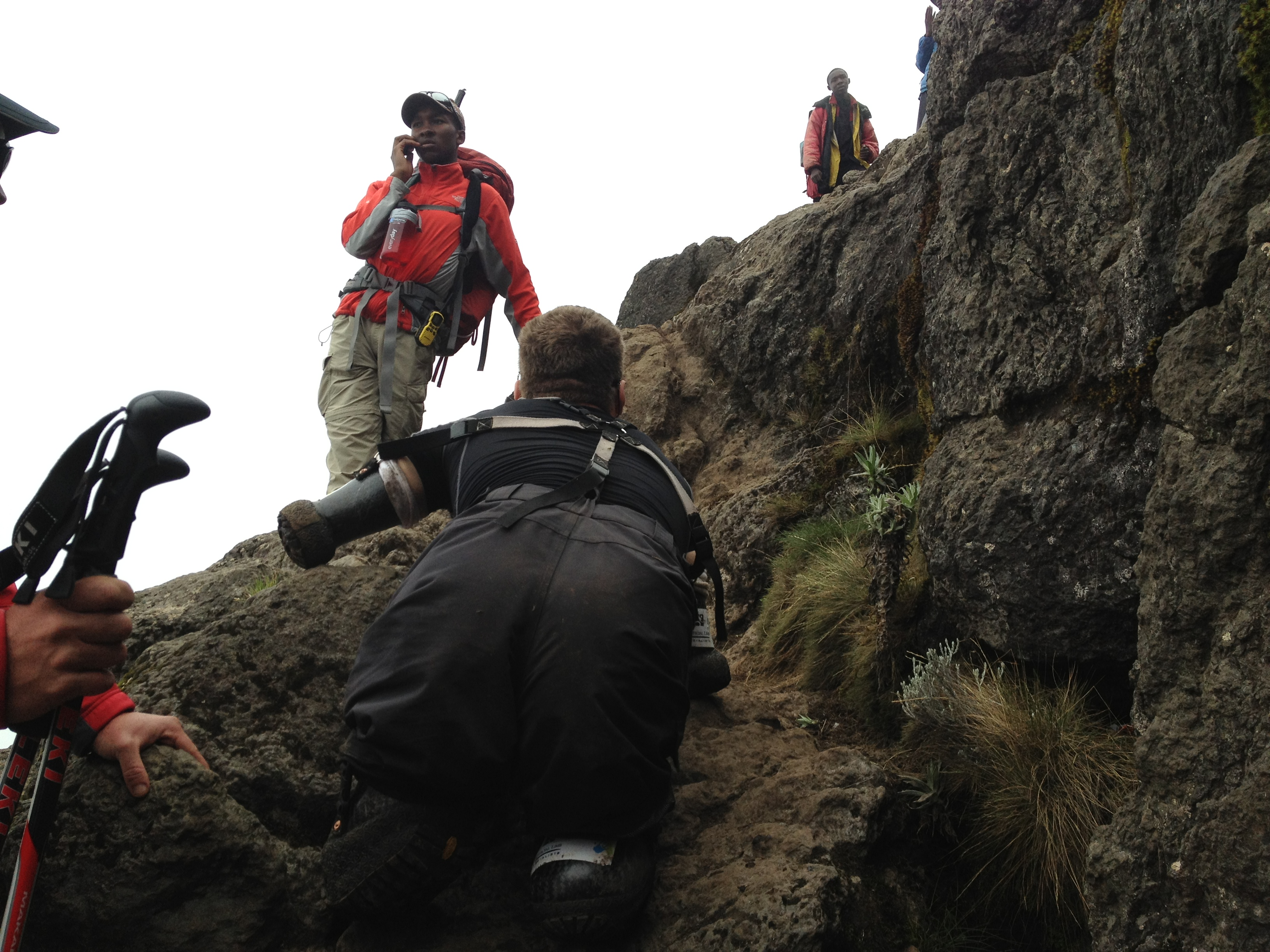 Kyle Maynard climbs Mount Kilimanjaro